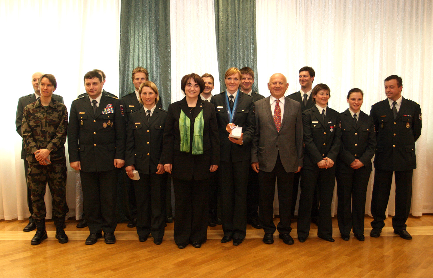 Slovenian military sports team after the OG 2010